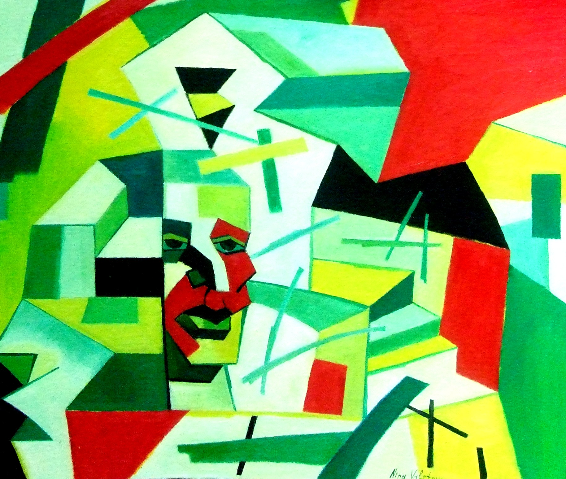 Lost Without a Trace, 66 cm x 69.3 cm, oil on canvas, 2008